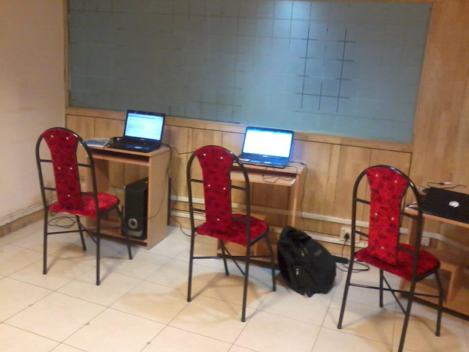 A IT Park in Kerala. Owned by Kerala IT Mission